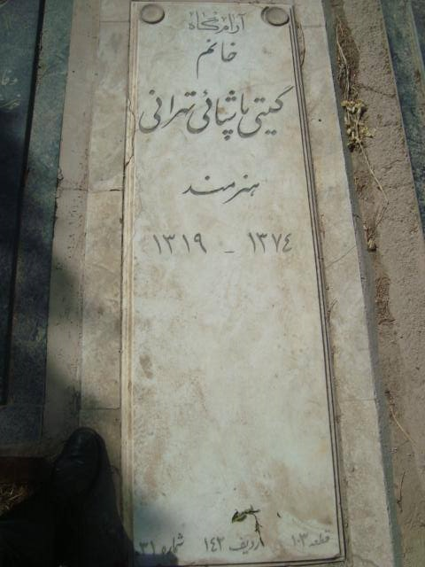 Gravestone of Giti Pashaei.